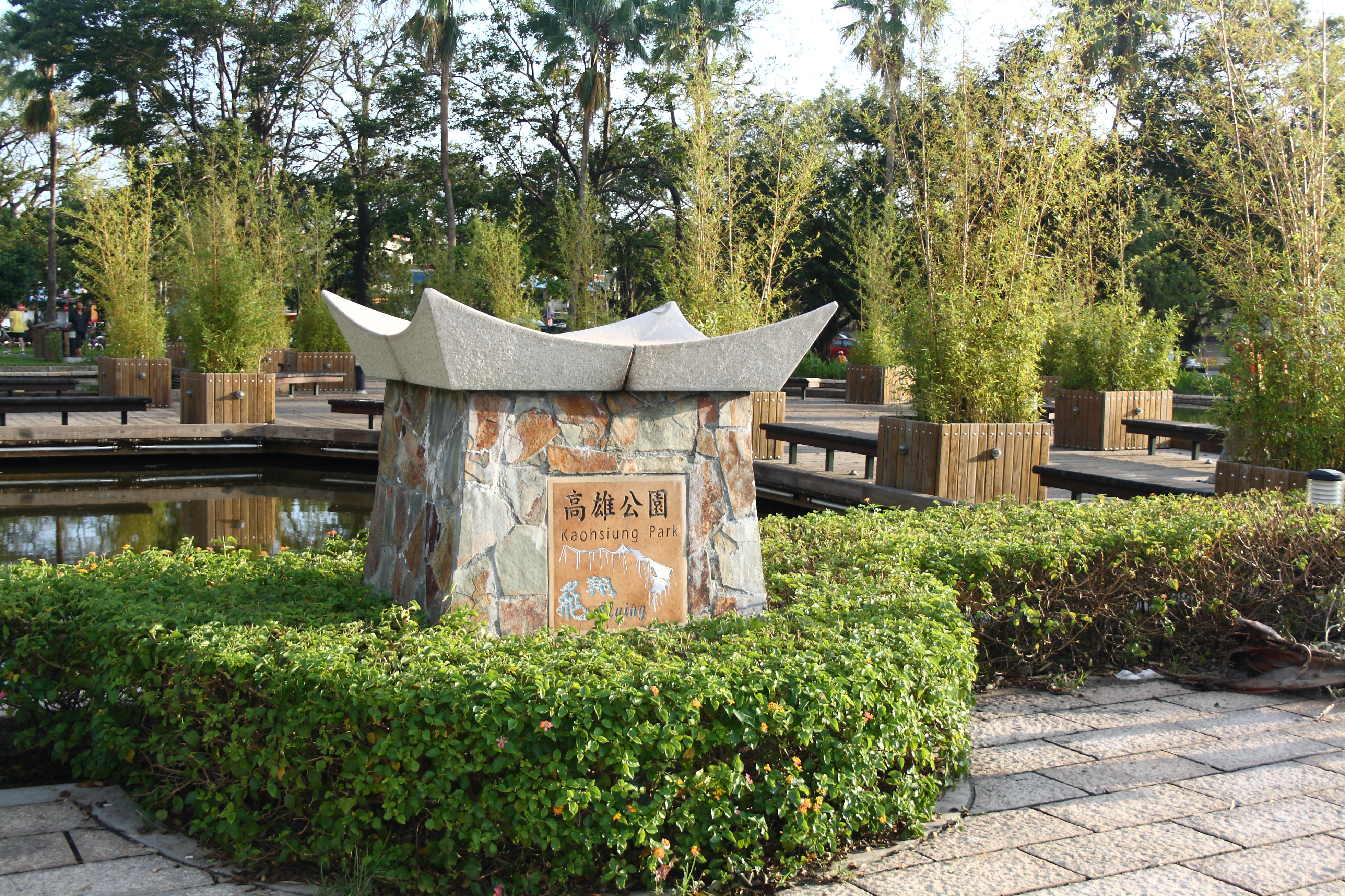 Kaohsiung Park 中文（香港）: 高雄公園入口